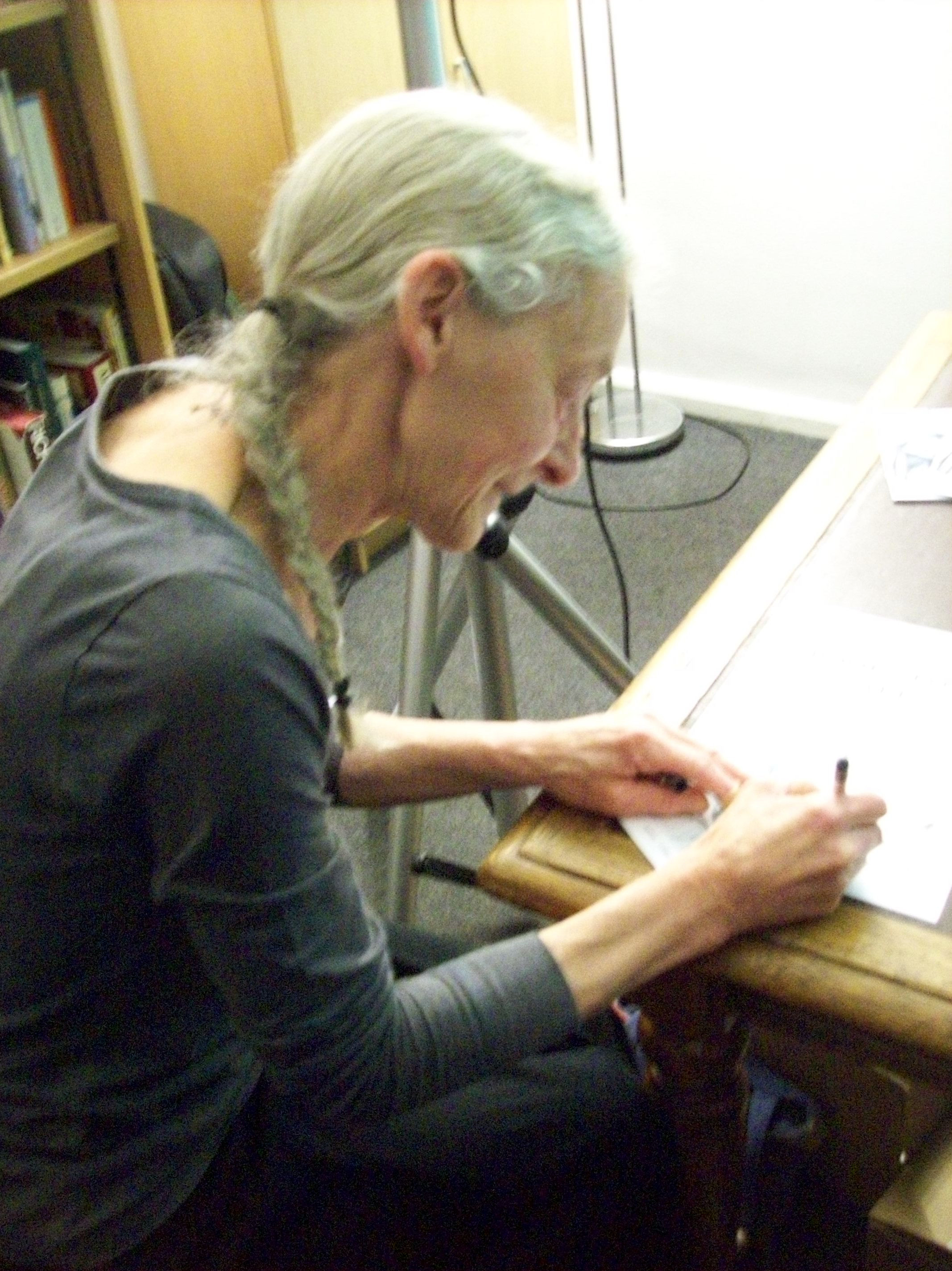 Gillian Allnutt is one of the working poets in the North-East of England and an audience of over 100 turned-up for the launch of her new chapbook "icumen" In explaining the title Gillian has written in its introduction: “My mother often said it: Sumner is icumen in". I'm delighted to have this picture of Gillian singing my copy. ...